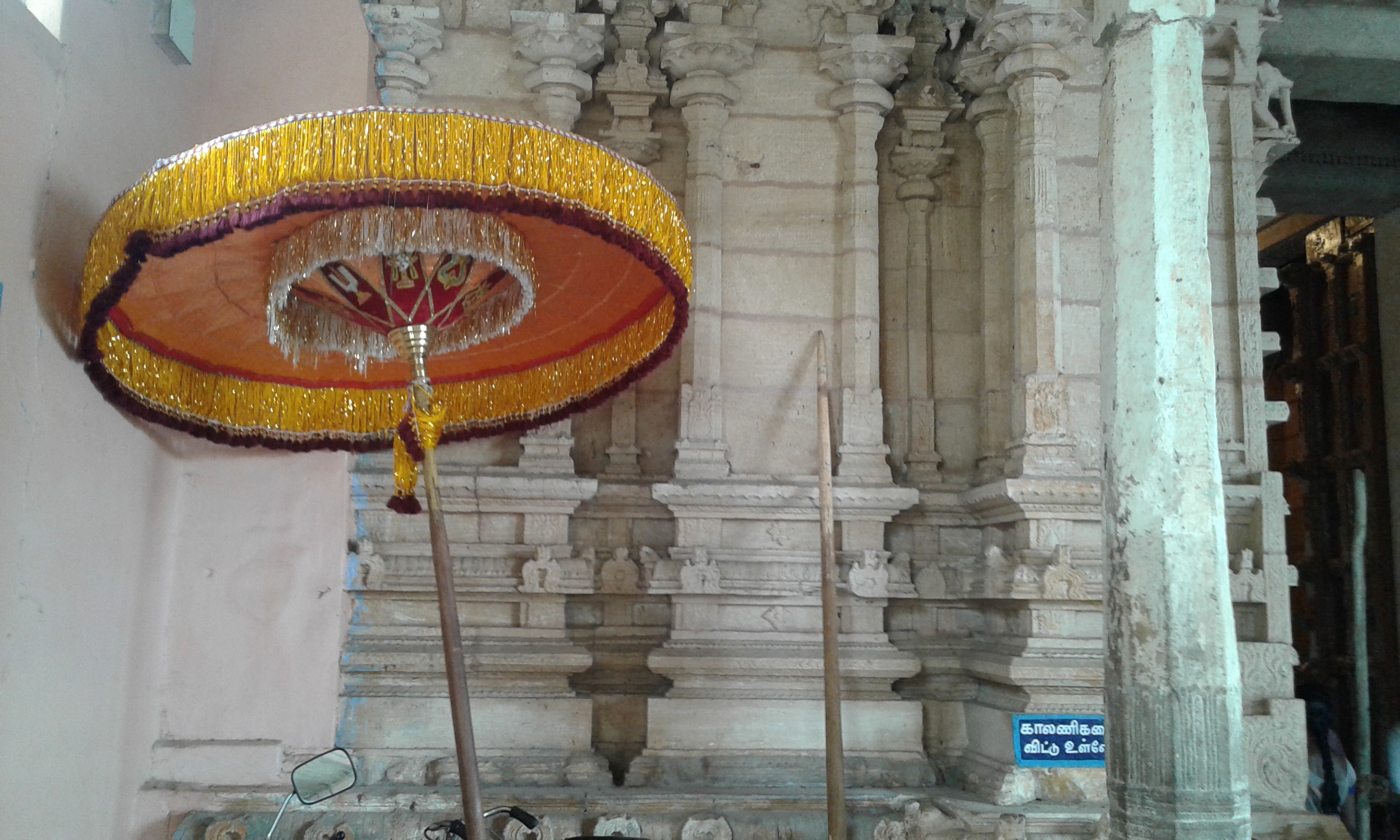 Thirukulandhai